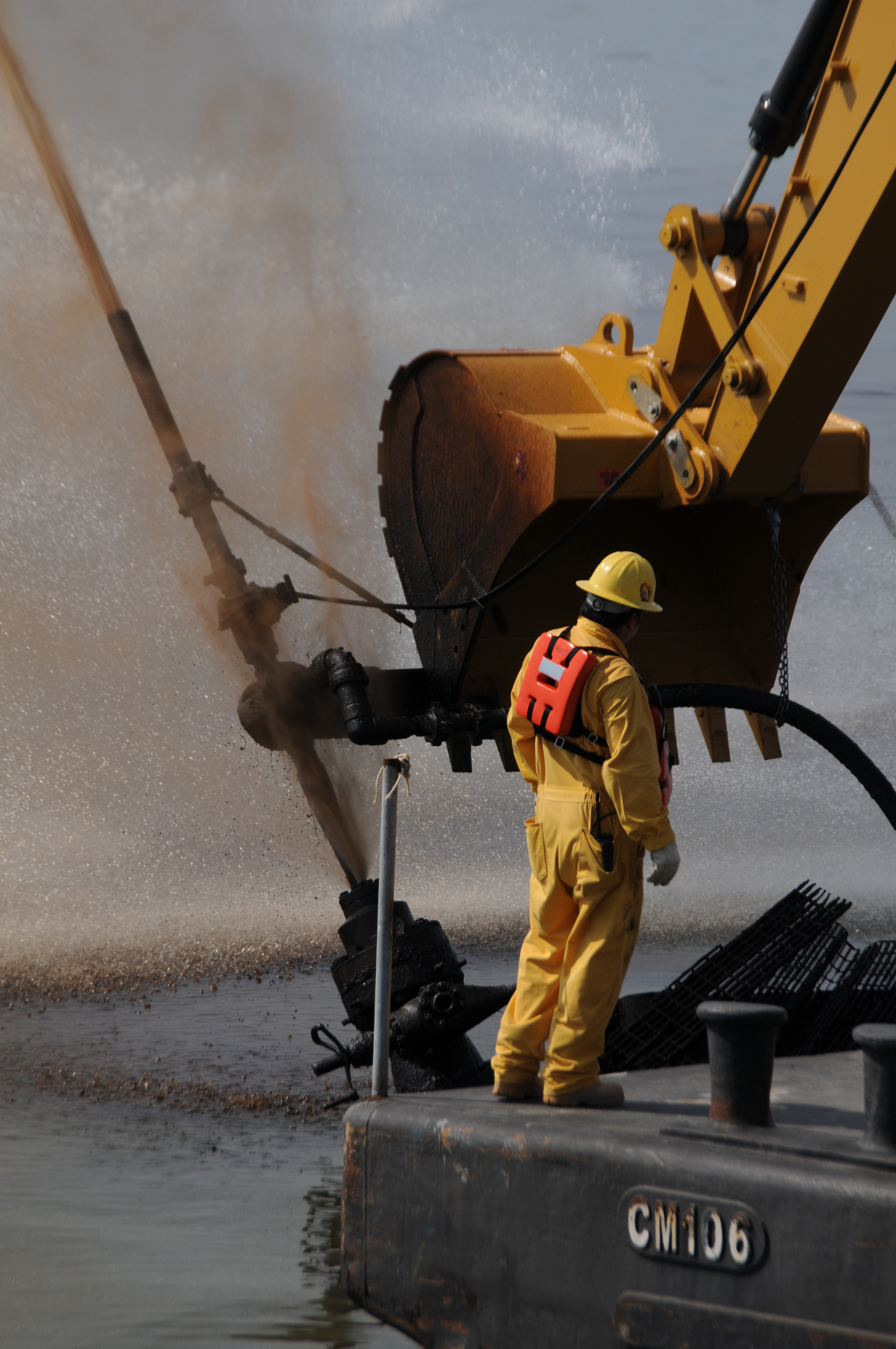 Crews from Wild Well Control Inc. work to control a damaged wellhead spewing oil into the waters of Barataria Bay, Aug. 1, 2010. The wellhead was successfully shut-in at approximately 6 p.m., Sunday. Securing the wellhead, which was hit by a barge July 27, was challenging due to the remote location and shallow water at the site.